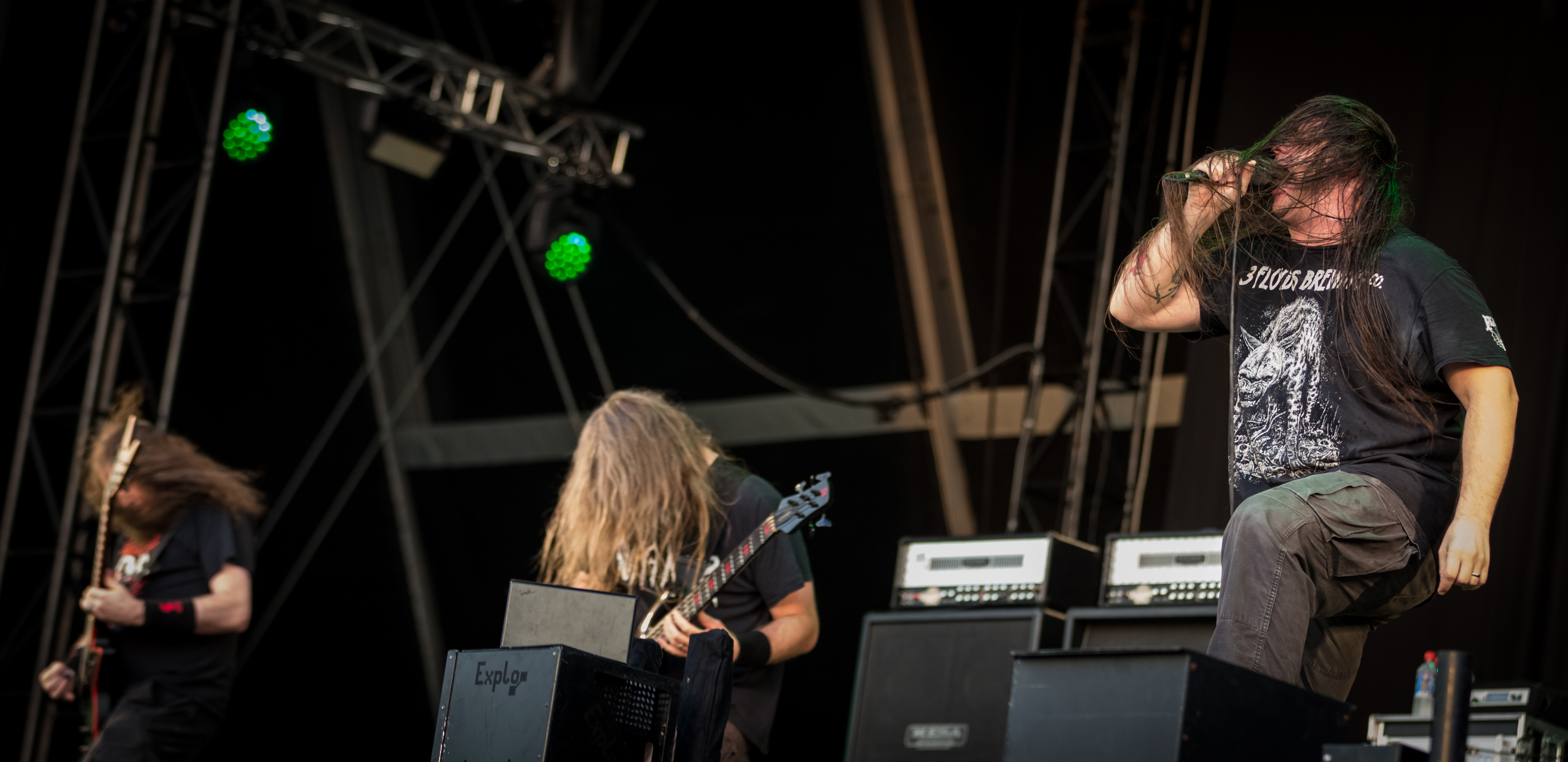 Cannibal Corpse - Wacken Open Air 2015